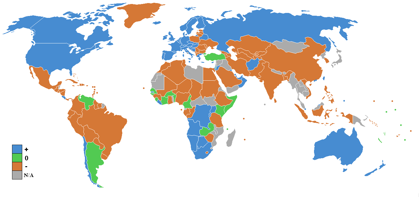 year 2011